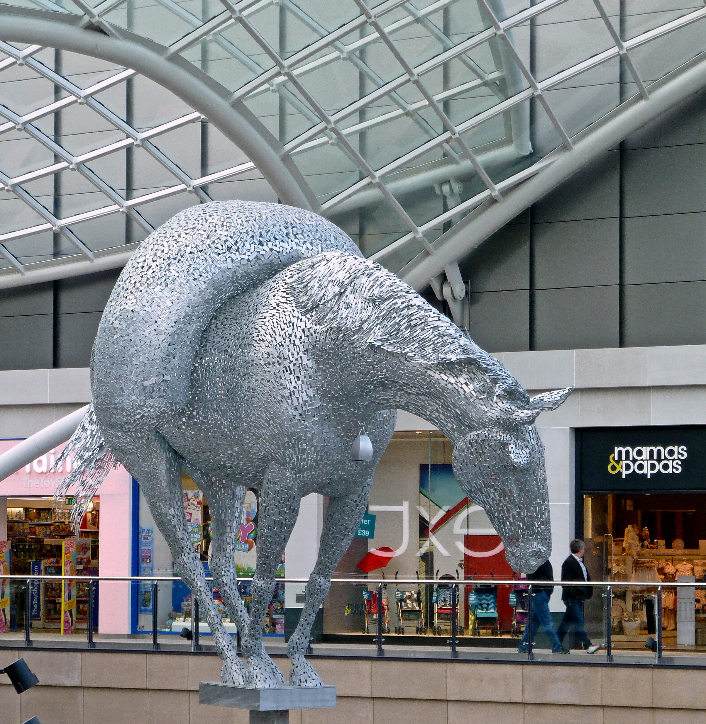 Horse sculpture in the Trinity Centre, Leeds, West Yorkshire. Taken by Flickr user:Tim Green aka atouch on Friday the 12th of April 2013.